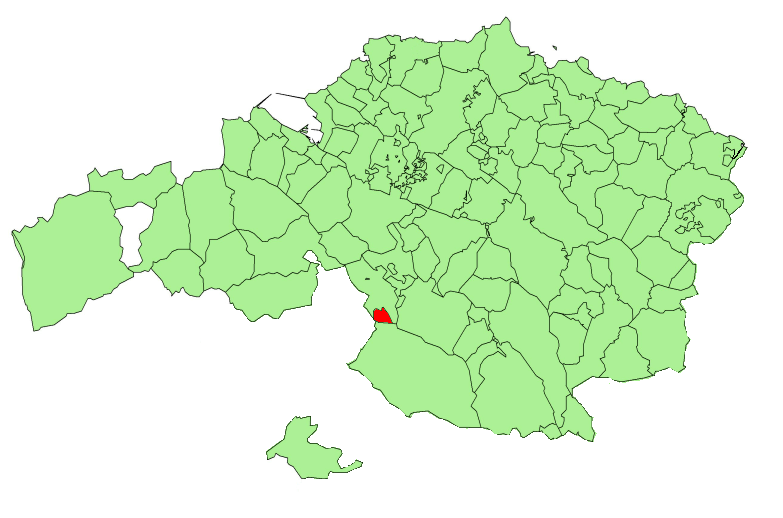 Arakaldo municipality in the province of Biscay